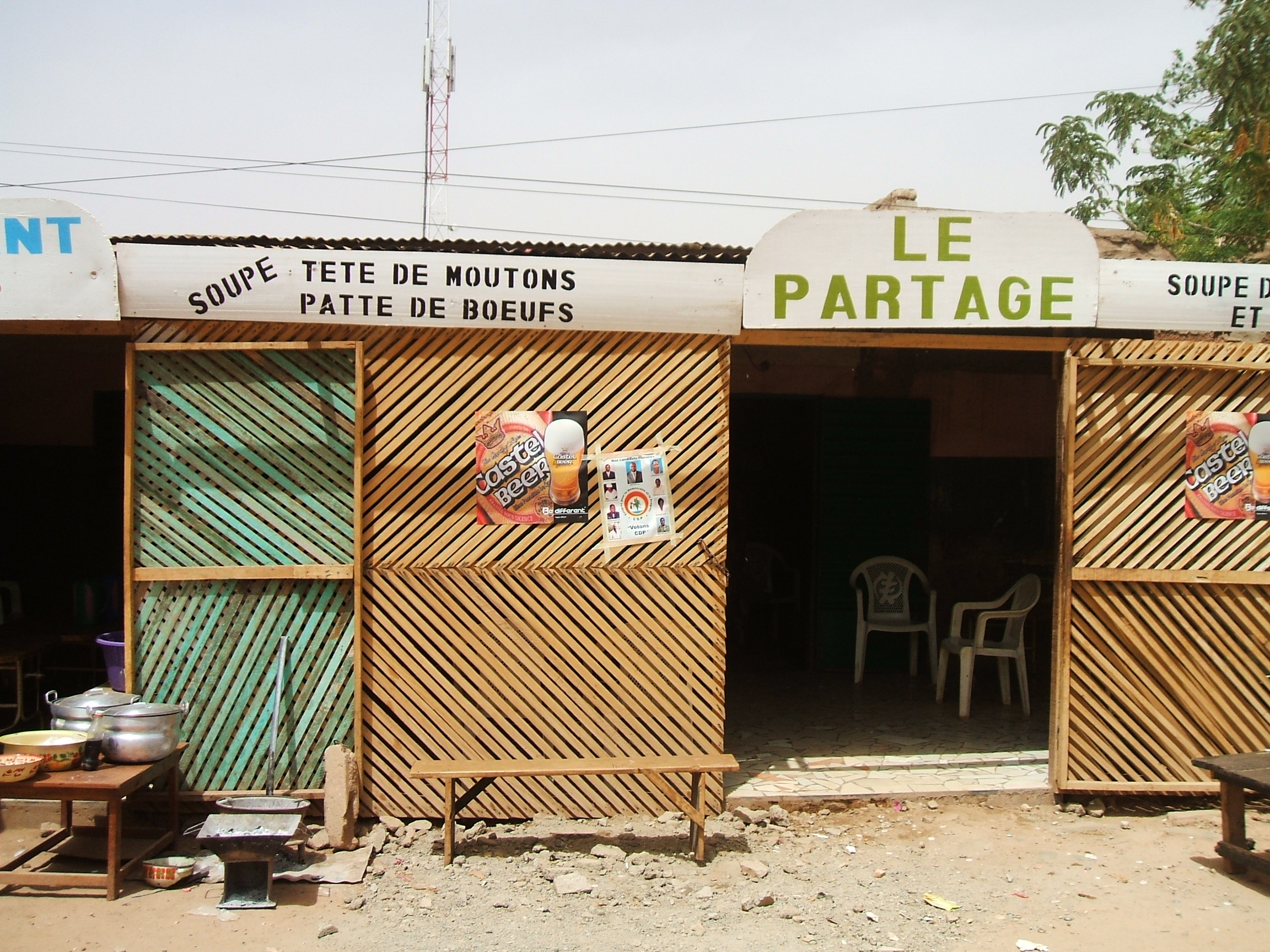 "Maquis", typical African restaurant, in Ouagadougou, Burkina Faso.